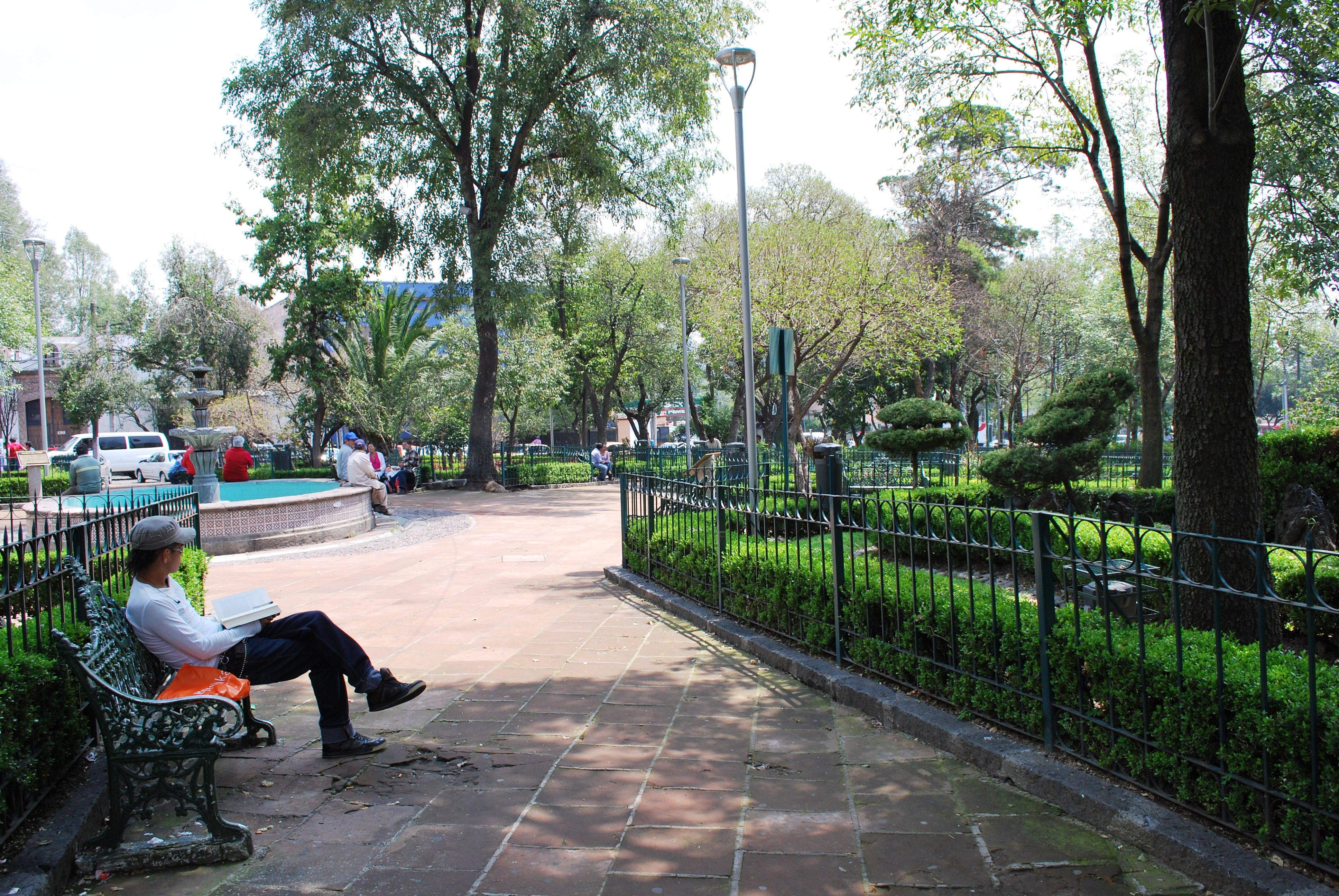 People enjoying time at the Plaza del Carmen Park located in the San Angel neighborhood of Mexico City